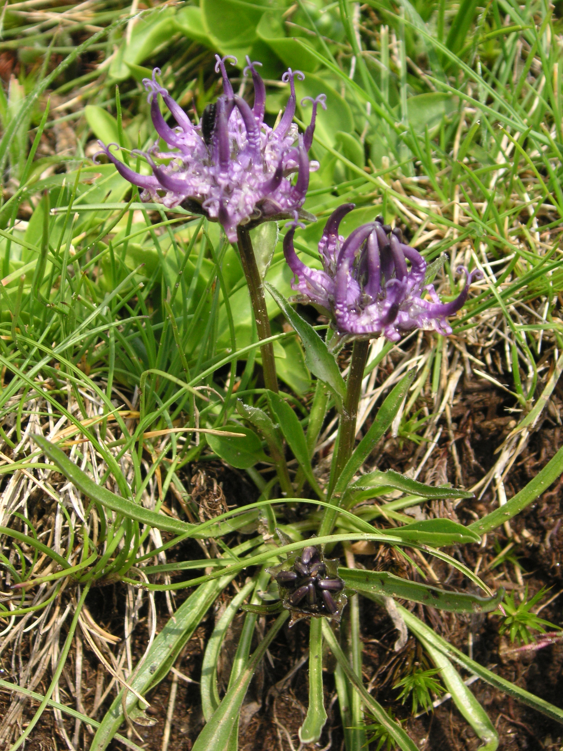 Phyteuma confusum